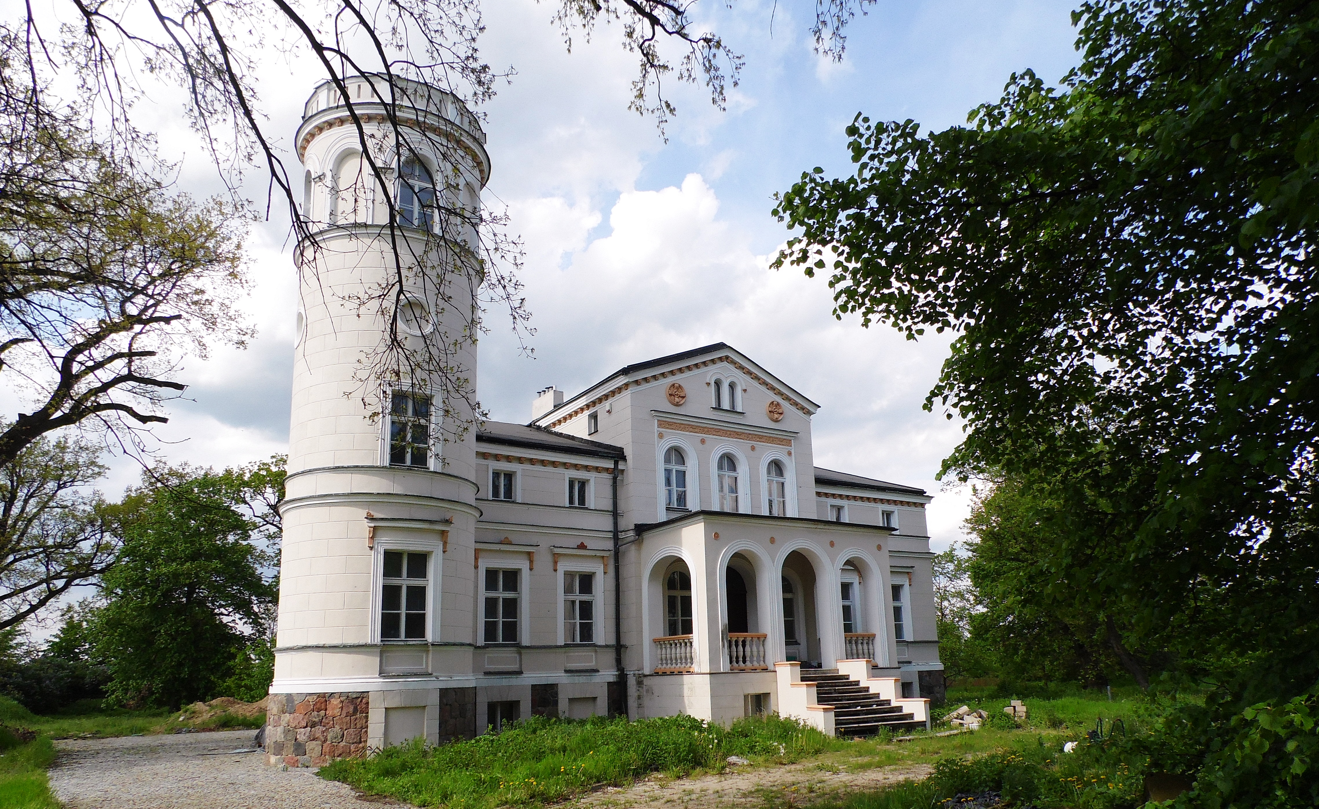 Palace of the second half of the nineteenth century (p. pd.) Dobramyśl / area. Leszno / province. Greater Poland / Poland